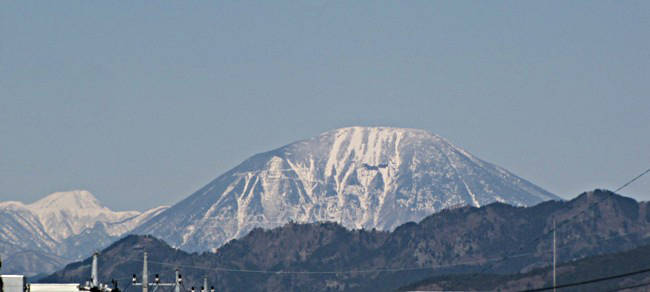 Japan: the Nantai volcano in Nikkō (Tochigi prefecture) and the mount Nikkō-Shirane from Utsunomiya.